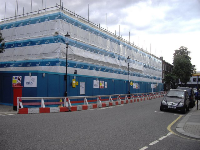 Chelsea Academy under construction at the corner of Burnaby Street and Upcerne Road